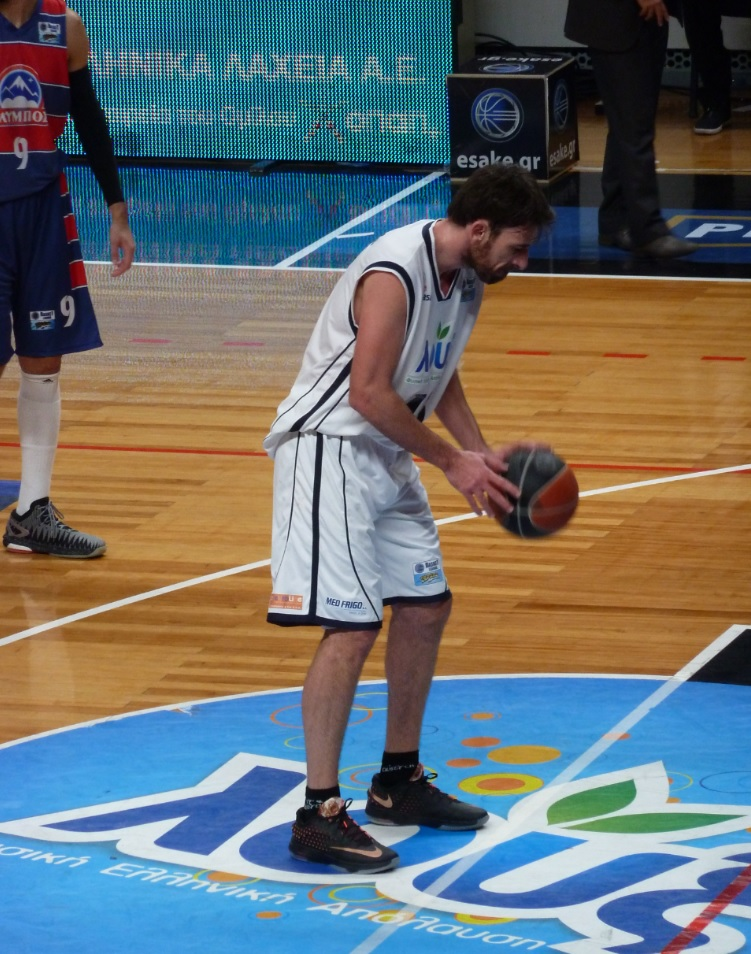 Fotis Lampropoulos playing with Apollon Patras against Aiolos Trikala, Greek Basket League (9 January 2016).